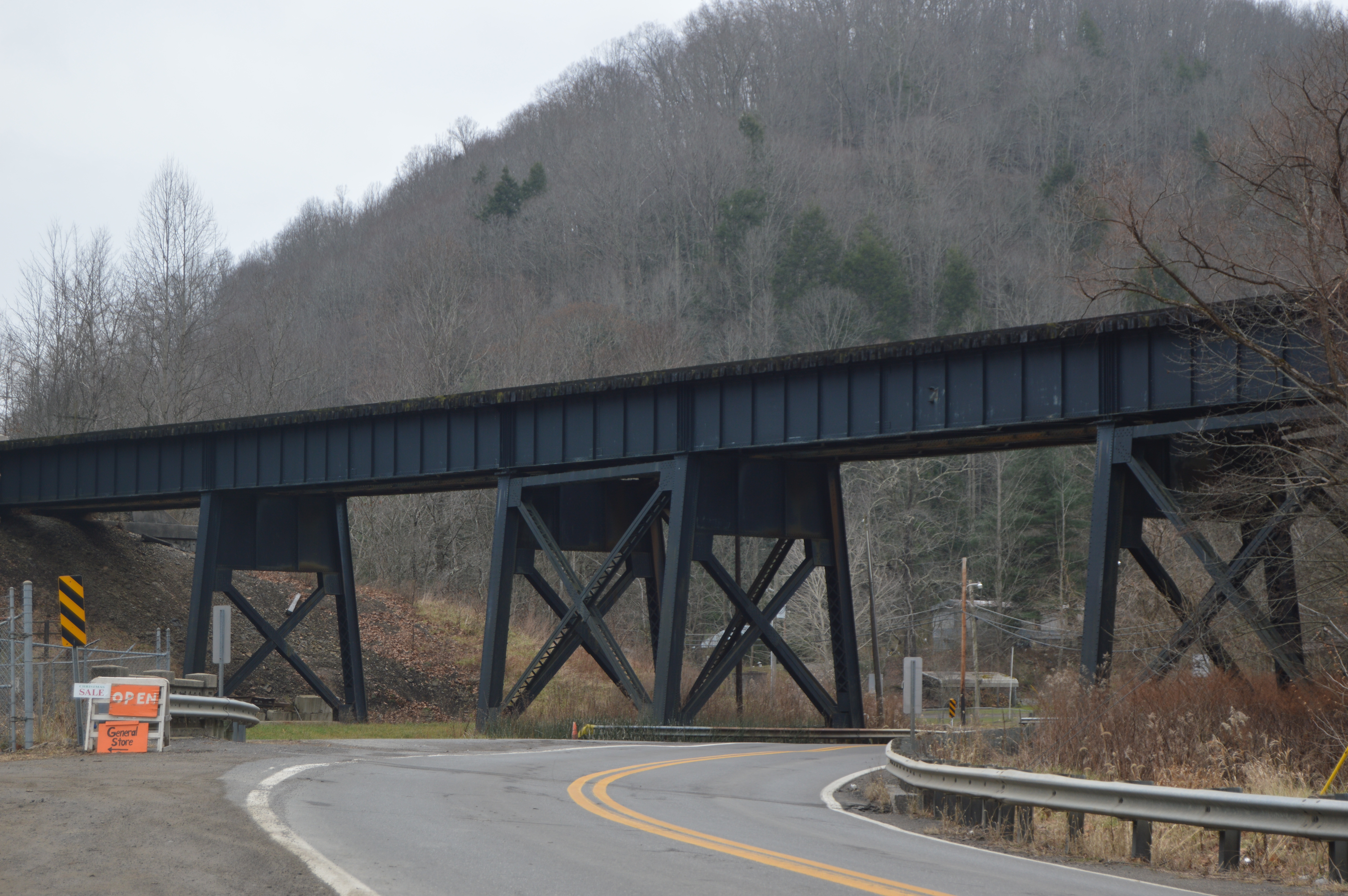 Northern side of the Norfolk Southern Railway bridge over West Virginia Route 10 at Herndon in Wyoming County, West Virginia, United States. It was built in 1907 for the Virginian Railway.